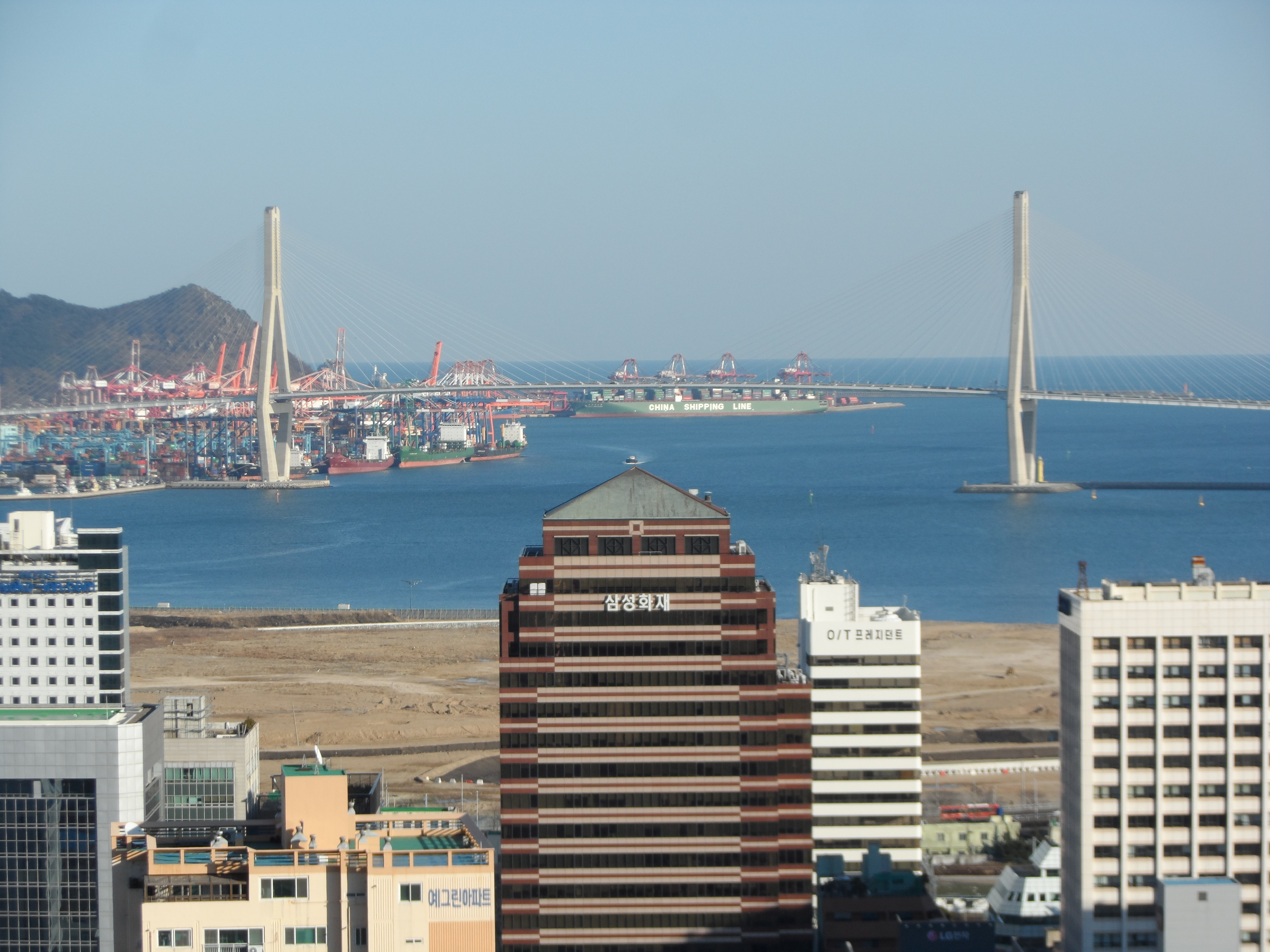 Busan Harbor Bridge